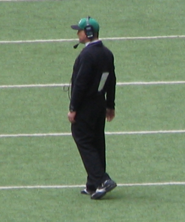 Todd Dodge, coach of Carroll High School, Southlake, Texas.